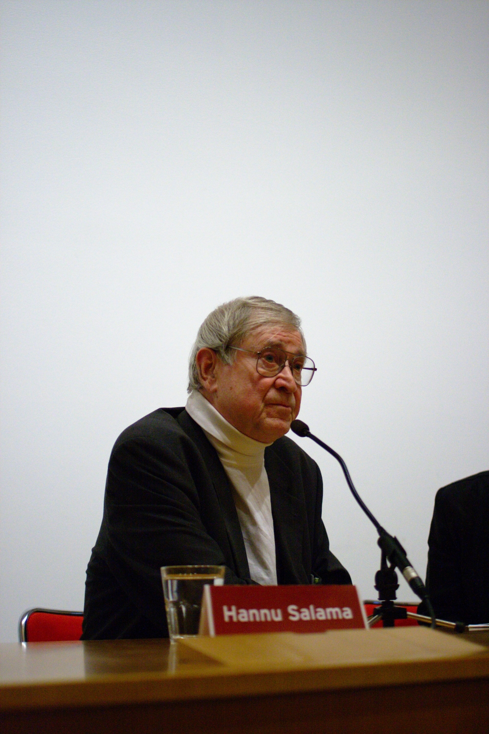 A picture of Finnish author Hannu Salama